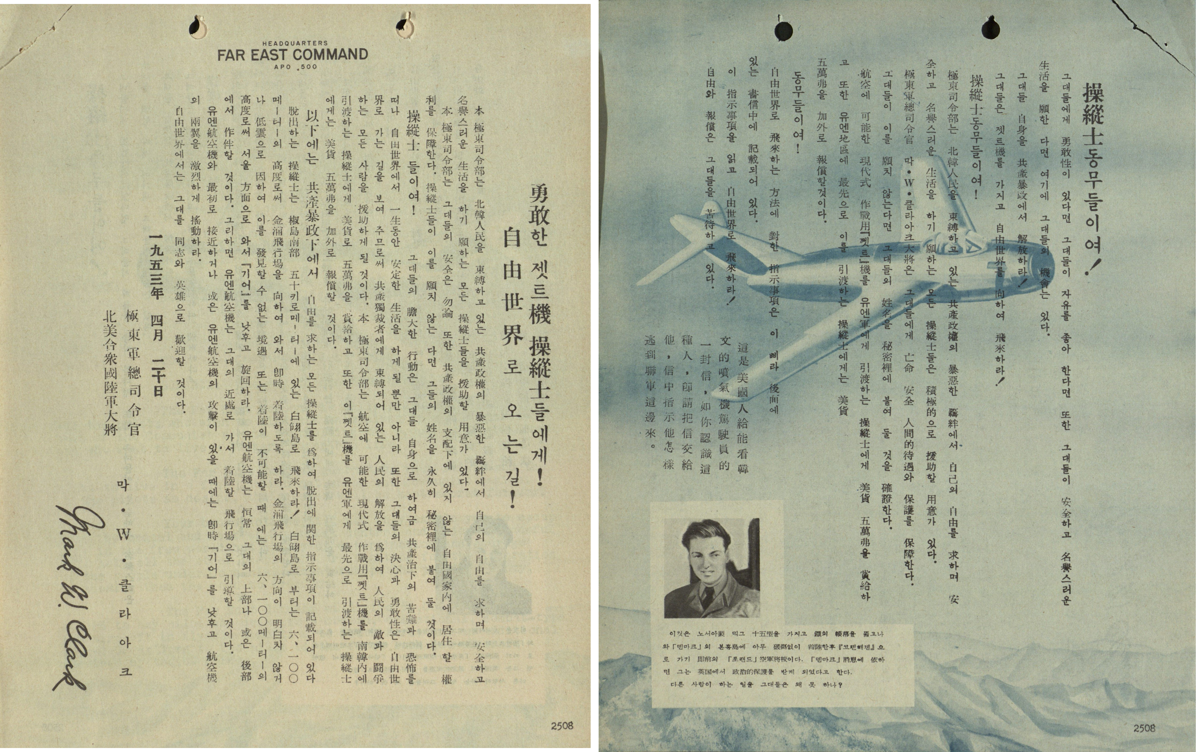 Propaganda leaflet encouraging Communist pilots to defect with their jet fighters. North Korean pilot No Kum-Sok eventually claimed the $100,000 reward offered in the pamphlet. The story of Polish aviator Franciszek Jarecki is also included in the leaflet.